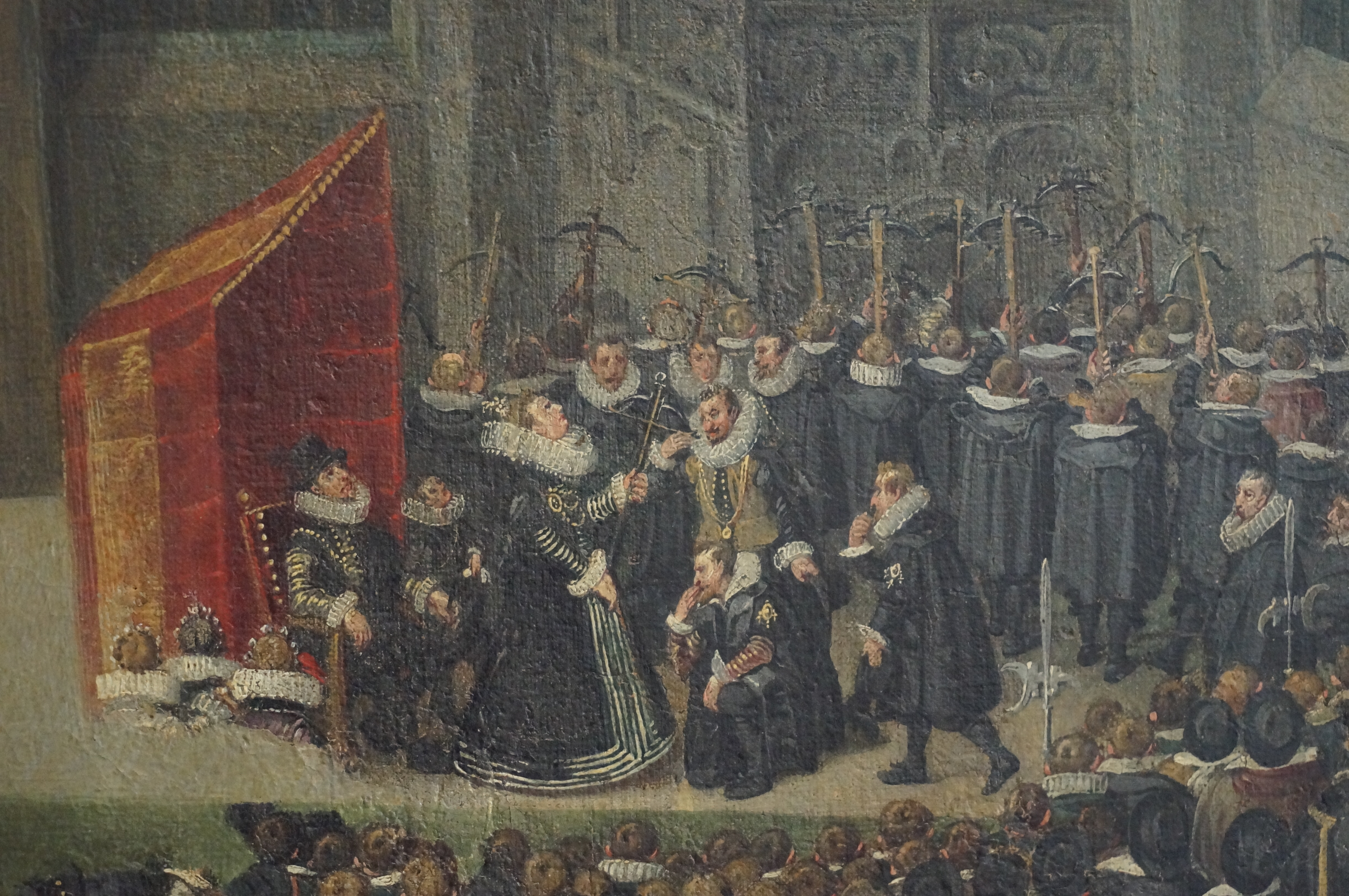 Archduchess Isabella at the crosbowmen's tournament at the Sablon church in Brussels in 1615. She managed to hit the main target that day. Detail from a painting by Antoon Sallaert held in Halle Gate, Brussels.